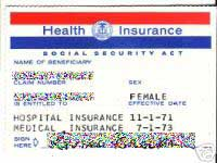 image edited to hide card's owner name. author: Arturo Portilla